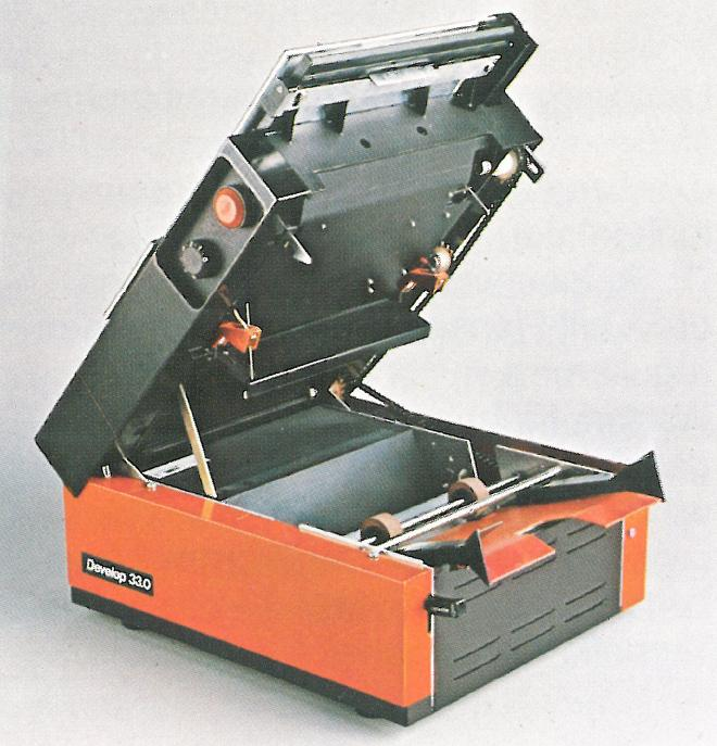 Develop 330